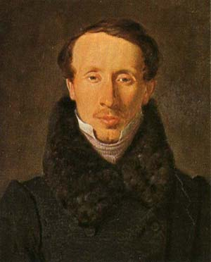 Portrait of Hans Christian Andersen painted by Albert Küchler in Rome in 1834